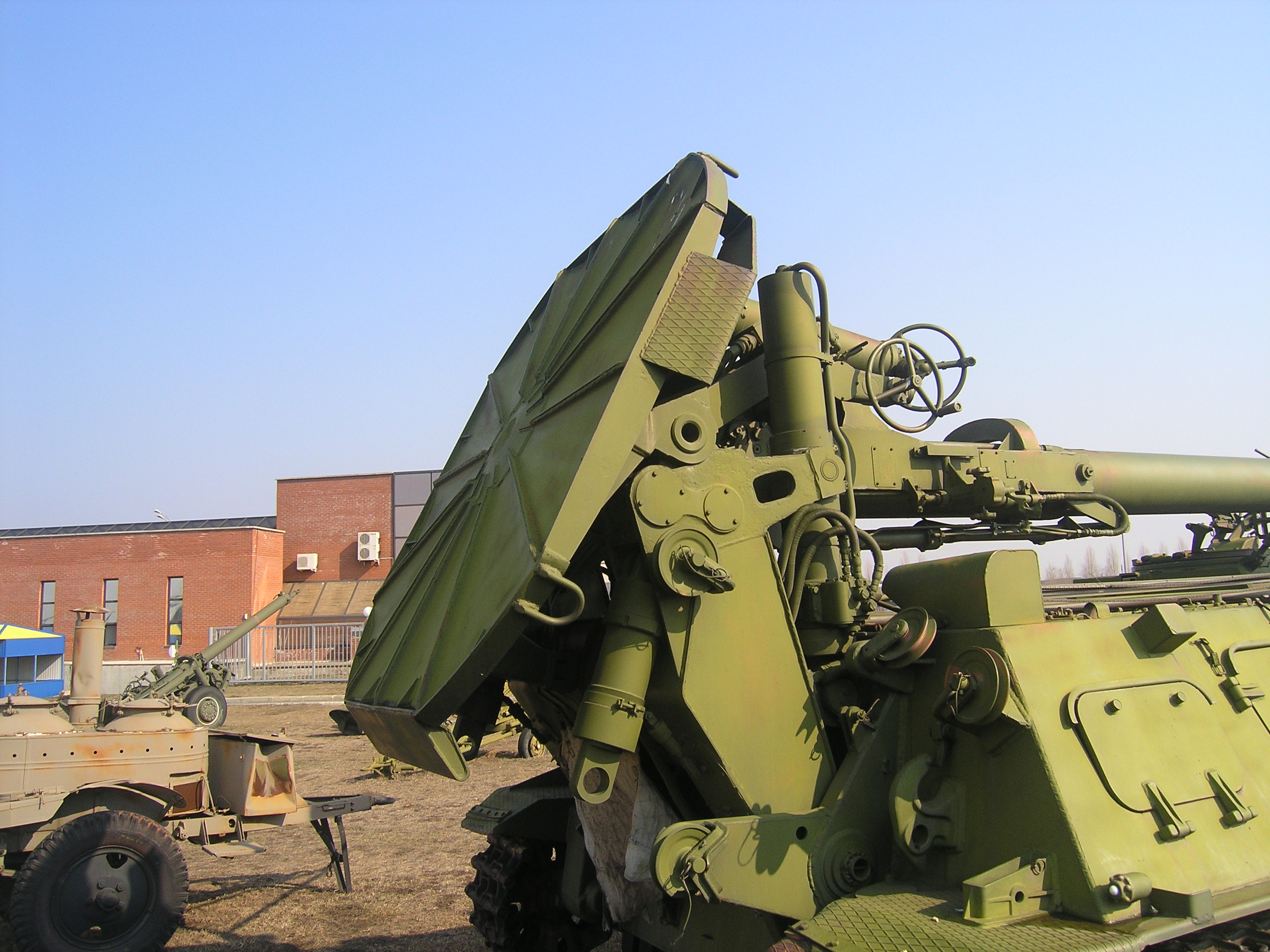 240-mm self-propelled mortar 2S4 «Tyulpan» in Techical museum Togliatti